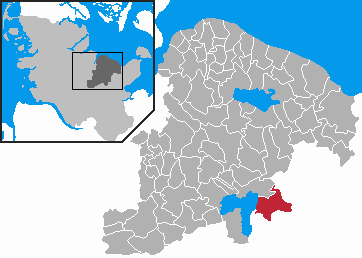 This map shows the area of the Gemeinde (municipality) Bösdorf in the Kreis (district) Plön, Schleswig-Holstein, Germany.